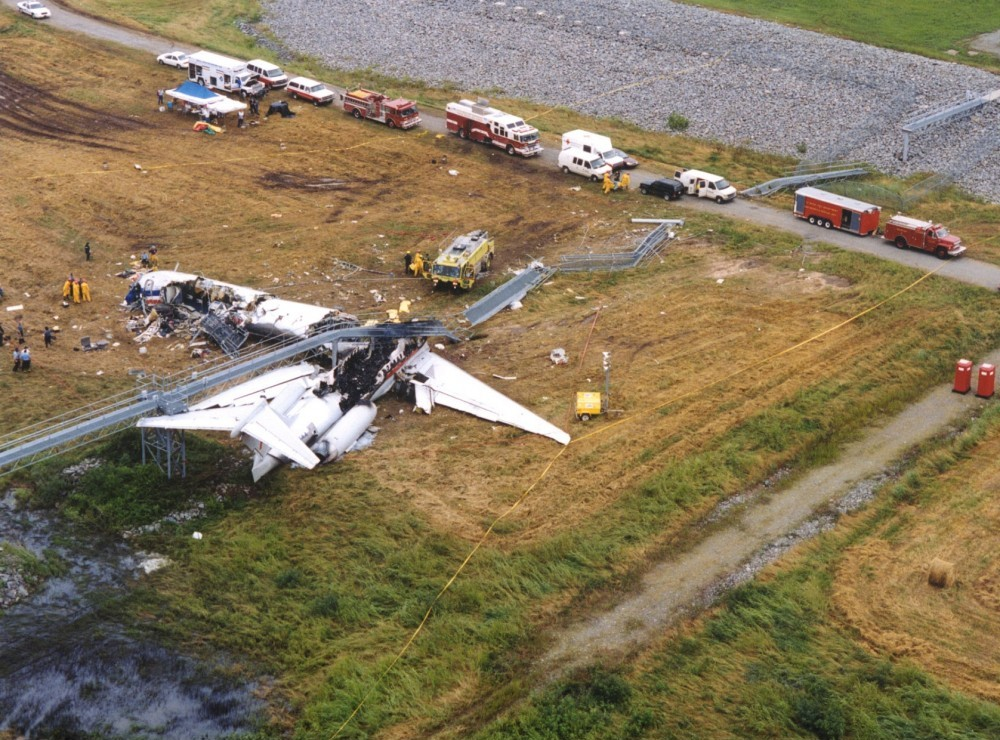 American Airlines Flight 1420（N215AA） Wreckage